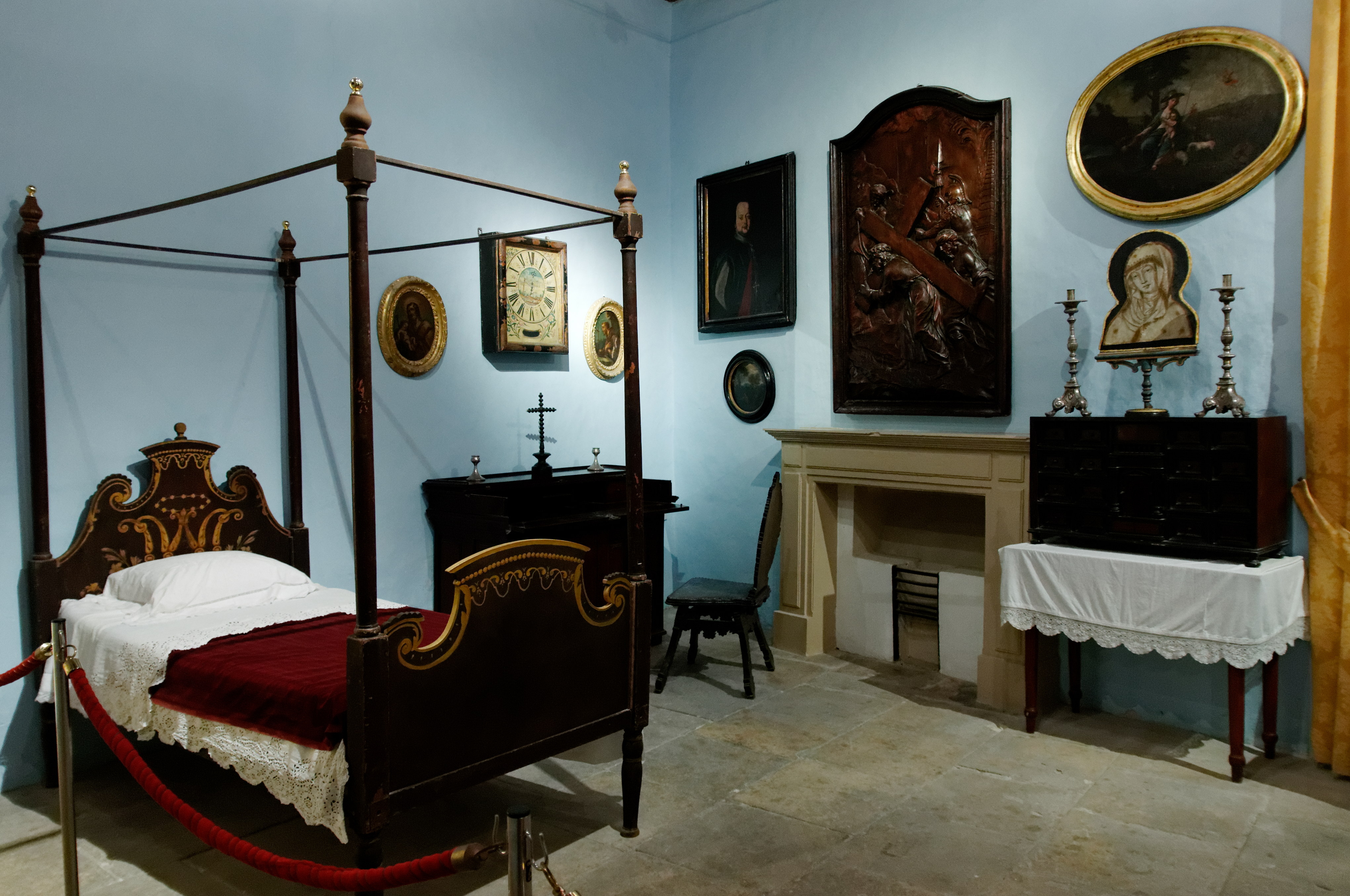 The inquisitor's bedroom, Inquisitor's palace in Vittoriosa (Birgu), Malta.